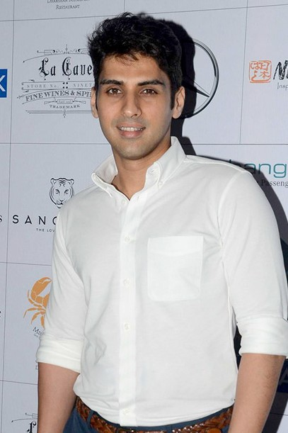 Sameer Dattani graces the Four Seasons new lounge launch